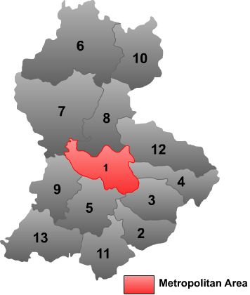 Map of Lüliang in Shanxi province.